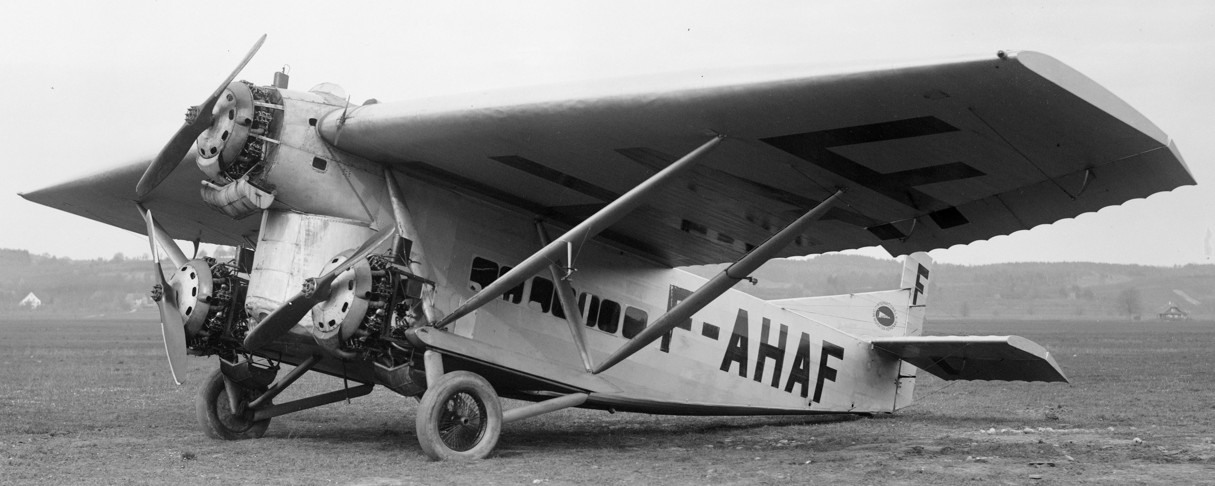 Farman F.4X airliner of Compagnie Internationale de Navigation Aérienne (CIDNA) with French registration F-AHAF at Dübendorf airfield near Zürich.